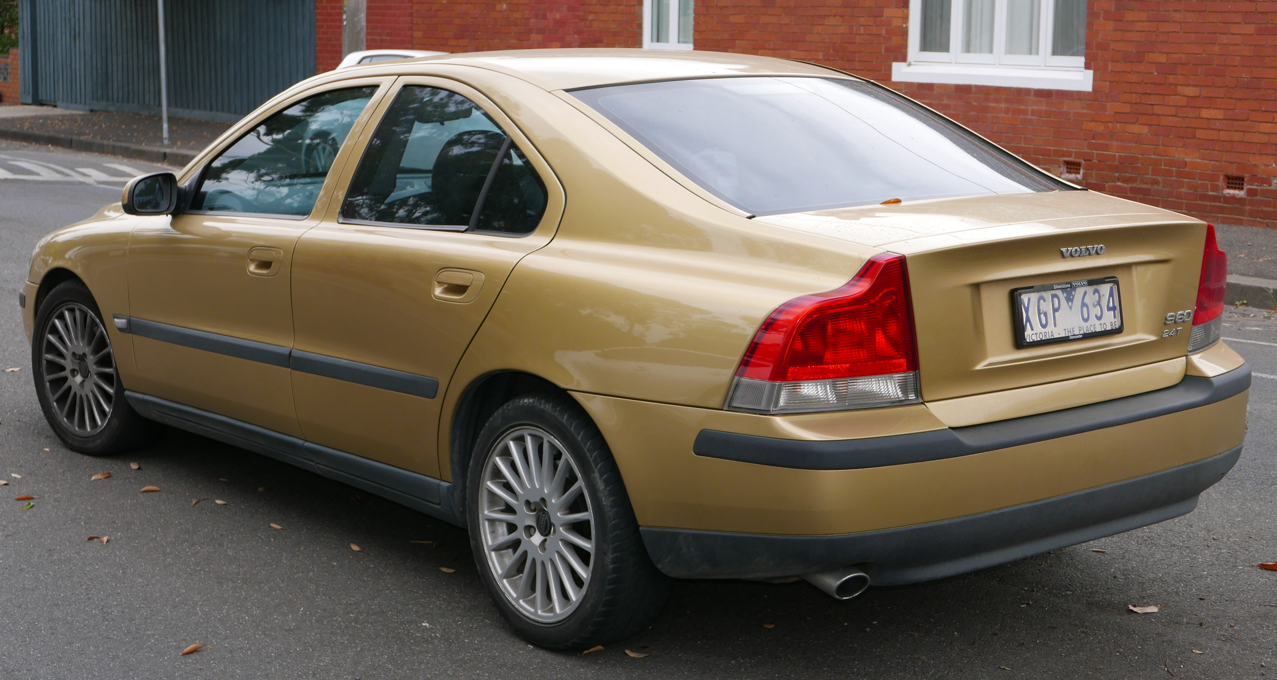 2001 Volvo S60 (MY01) 2.4 T sedan. Photographed in Princes Hill, Victoria, Australia. Vehicle registration enquiry resultsJurisdictionVictoriaRegistrationXGP634Chassis codeYV1RS58K912083133Engine codeB5244T32541471Compliance date2001-10Year of manufacture2001